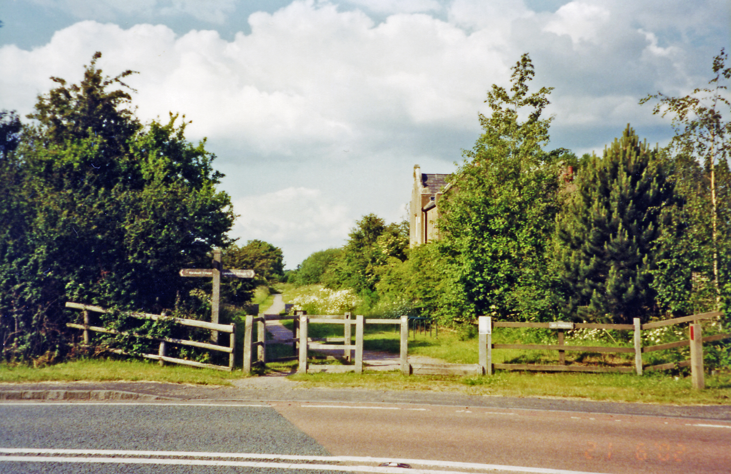 Site of former Lamport station, 2002. View northward on A508, towards Market Harborough: ex-LNW Northampton - Market Harborough etc. line. The station house remains, following closure of the station and line to passengers from 4/1/60, but goods continued along the route until 31/5/80. Subsequently the route has been converted to a bridleway, a short stretch of which from Pitsford & Brampton has been restored since 1984 by the heritage Northampton & Lamport Railway